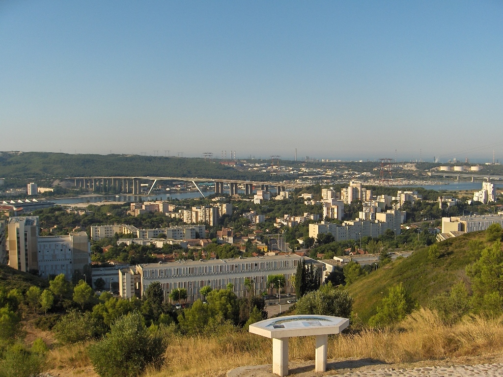 Martigues — Motorway viaduct A55 on canal de Caronte — In the background, on the right, petrochemical complex of Lavéra